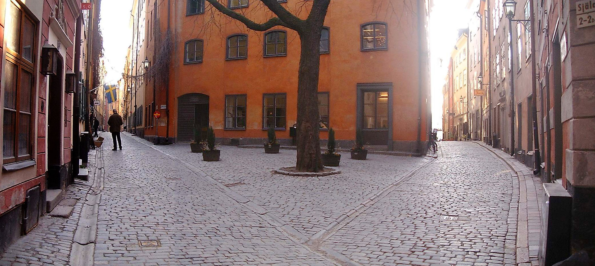 Panoramic view of Brända Tomten Gamla stan, Stockholm. Cropped. Composite of three photos, light modified.